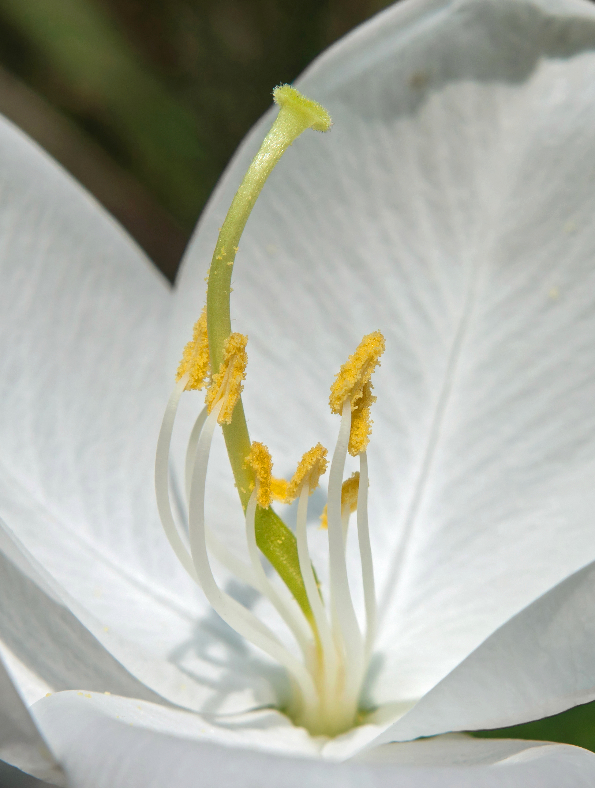 Bauhinia acuminata flower with stamens, style, stigma, filament.